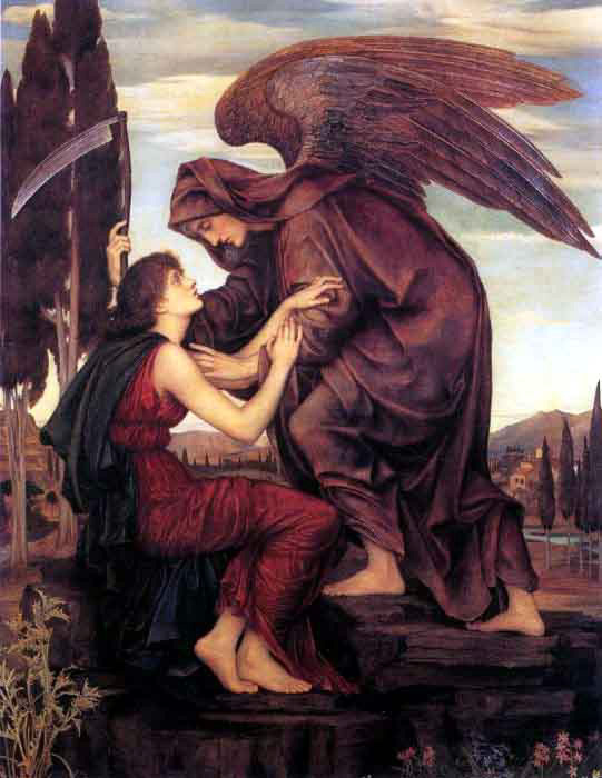 Contains a depiction of the angel of death